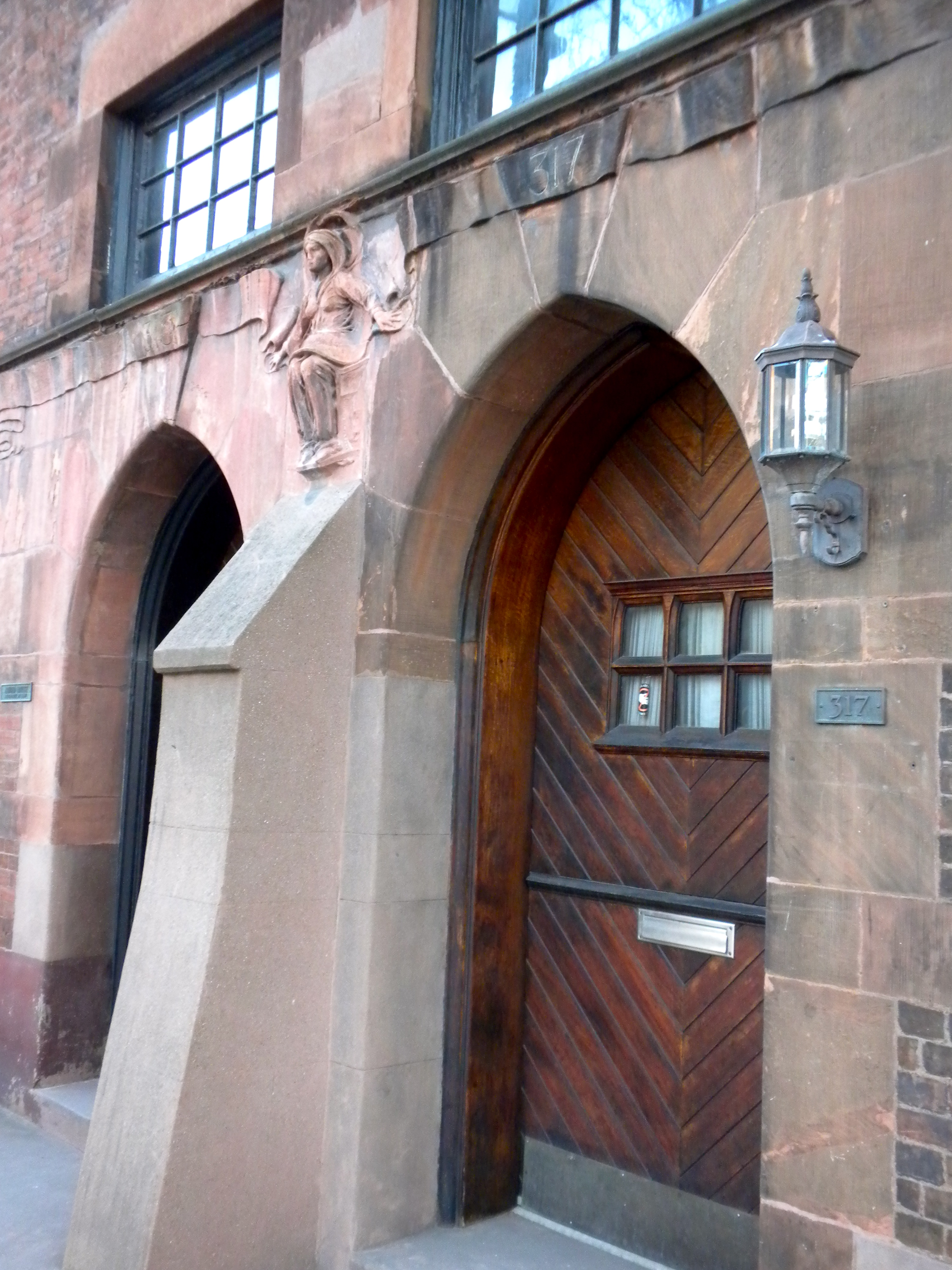 Doors to the Neill–Mauran House in Philadelphia, designed by architect Wilson Eyre. On NRHP since June 30, 1980. At 315–317 South 22nd Street in Rittenhouse Square West neighborhood of Center City.